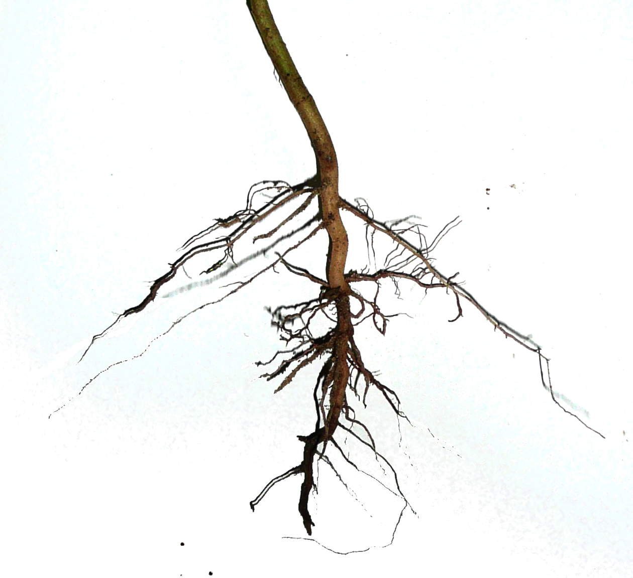 Dicotyledoneae Asteraceae herb - root system, primary root becomes tap root and lateral roots